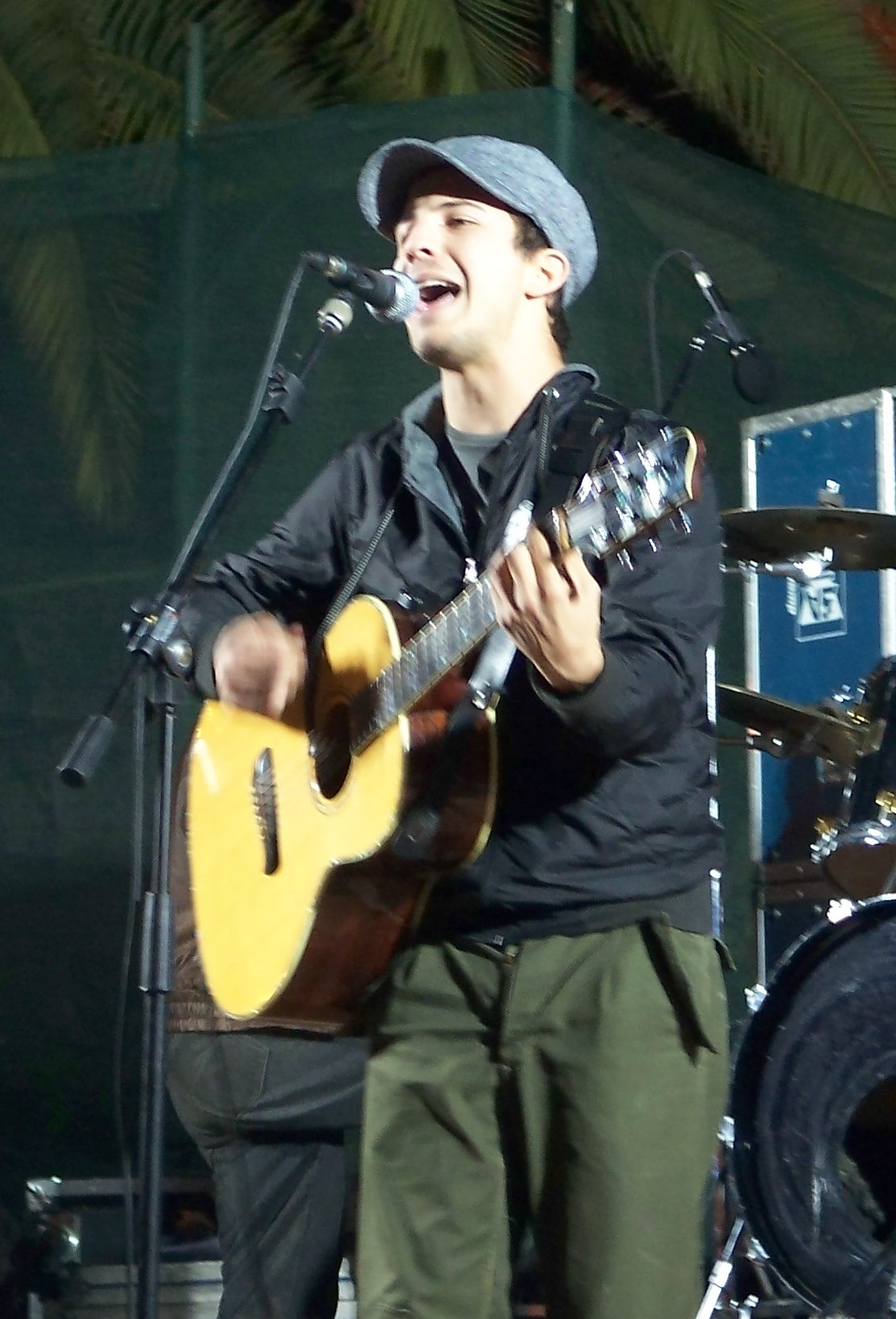 Greek singer Jacques Stefanou.